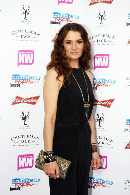 Danielle Cormack, Underbelly Razor DVD Party At East Village Surry Hills.